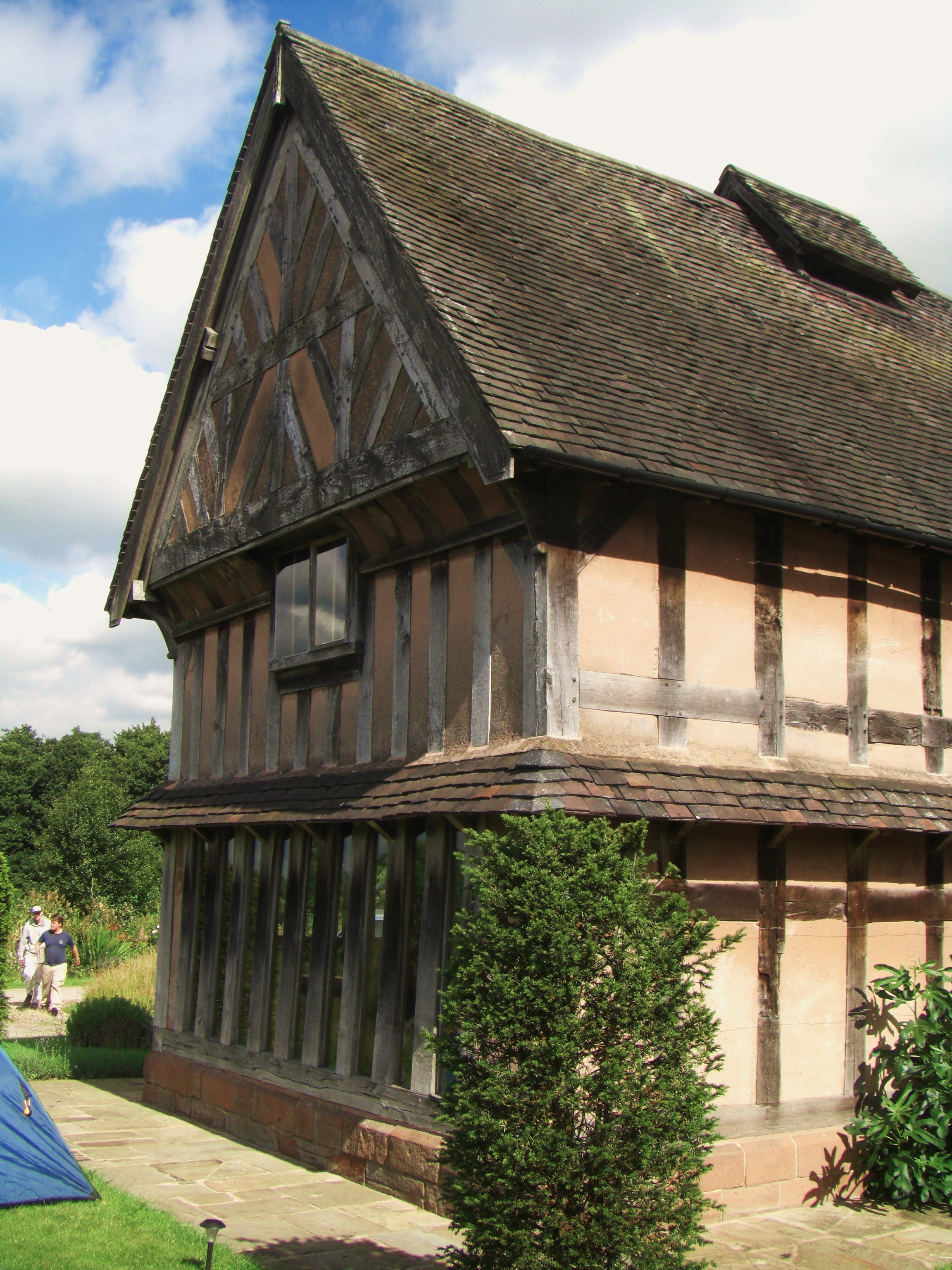 The Medicine House, an Early Modern building that was moved to Blackden in Cheshire by the novelist Alan Garner.